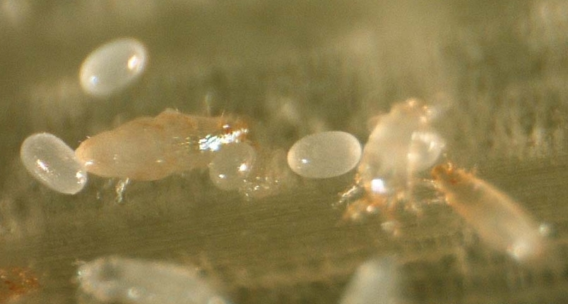 Panicle rice mite, also known as Steneotarsonemus spinki (S. spinki)